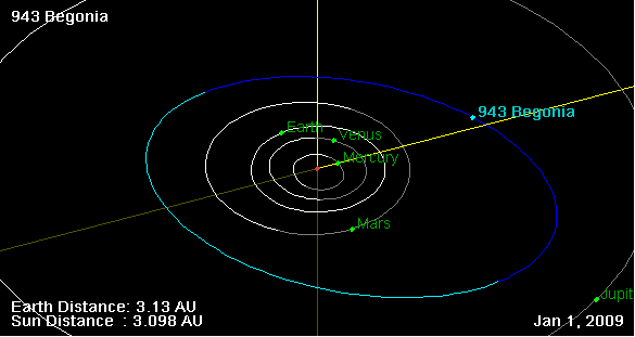 943 Begonia orbit, and his position on 01 Jan 2009 (NASA Orbit Viewer applet)